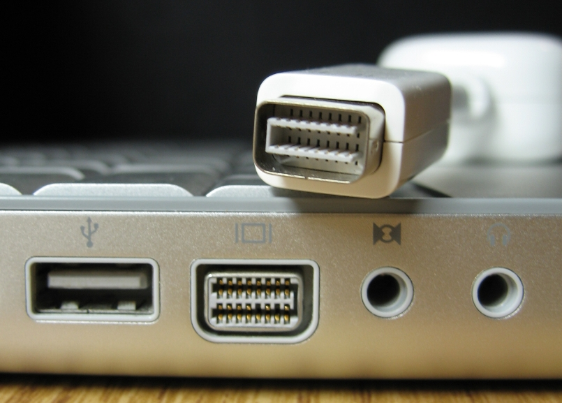 Mini-DVI connector on PowerBook G4 and TV-out adapter.